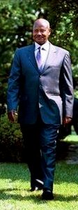 President Yoweri Kaguta Museveni of Uganda at the White House, 10 June 2003.